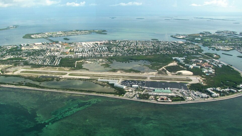 Key West airport; color levels adjusted slightly from original